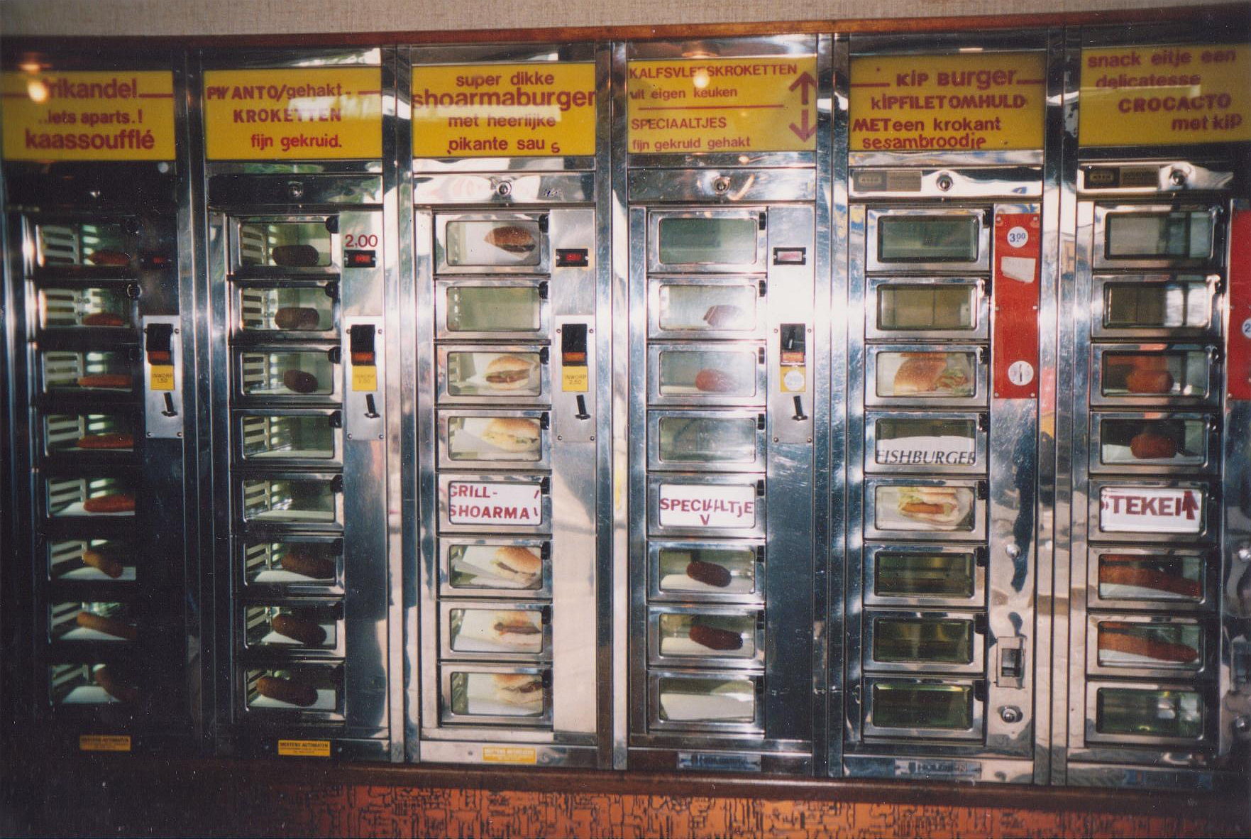 Automat in Amsterdam selling various hot, deep fried snacks.